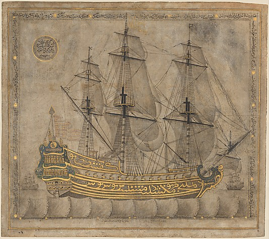 The hull of this sailing ship comprises the names of the Seven Sleepers and their dog. The tale of the Seven Sleepers, found in pre-Islamic Christian sources, concerns a group of men who sleep for centuries within a cave, protected by God from religious persecution. Both hadith (sayings of the Prophet), and tafsir (commentaries on the Qur'an) suggest that these verses from the Qur'an have protective qualities.